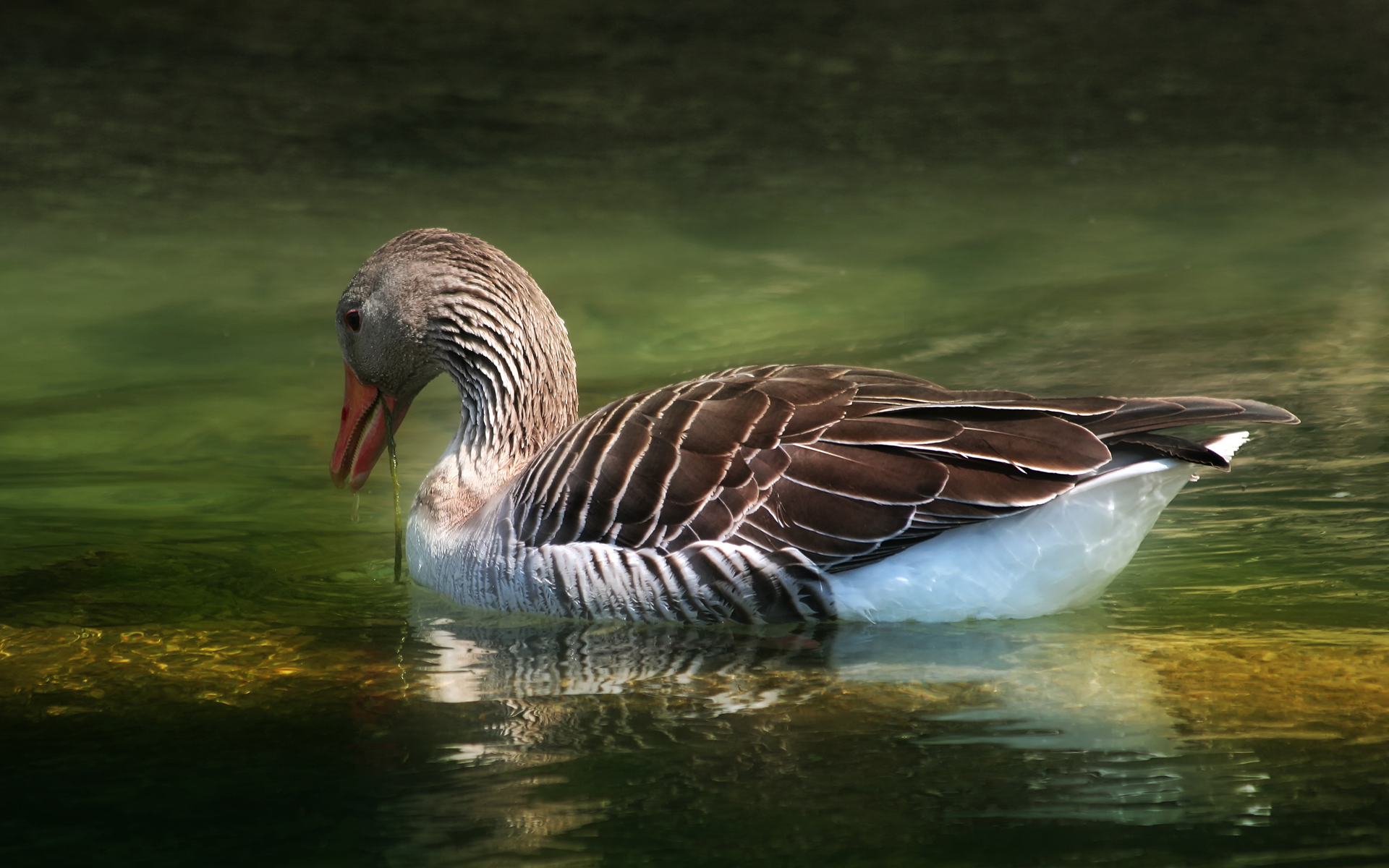 Description: The waterfowl genus Anser includes all grey geese and usually the white geese too. It belongs to the true geese and swan subfamily (Anserinae).